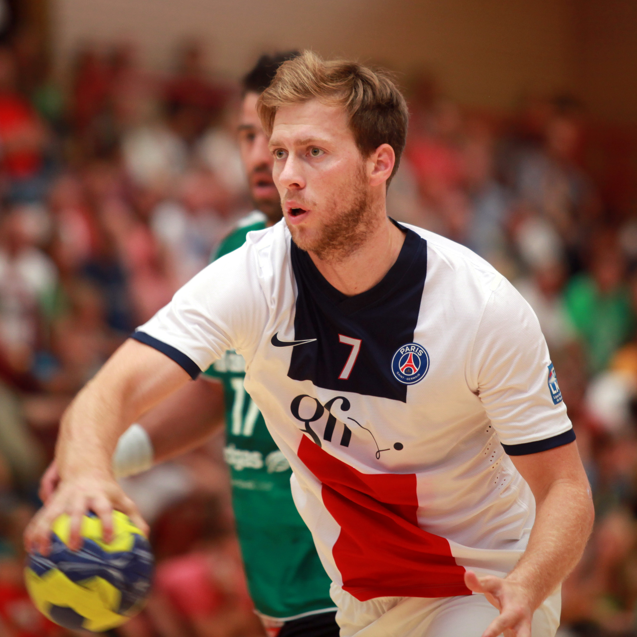 Gábor Császár, on August 17th, 2012 in Ehingen (Germany), during the Sparkassen Cup (formerly known as Schlecker Cup).